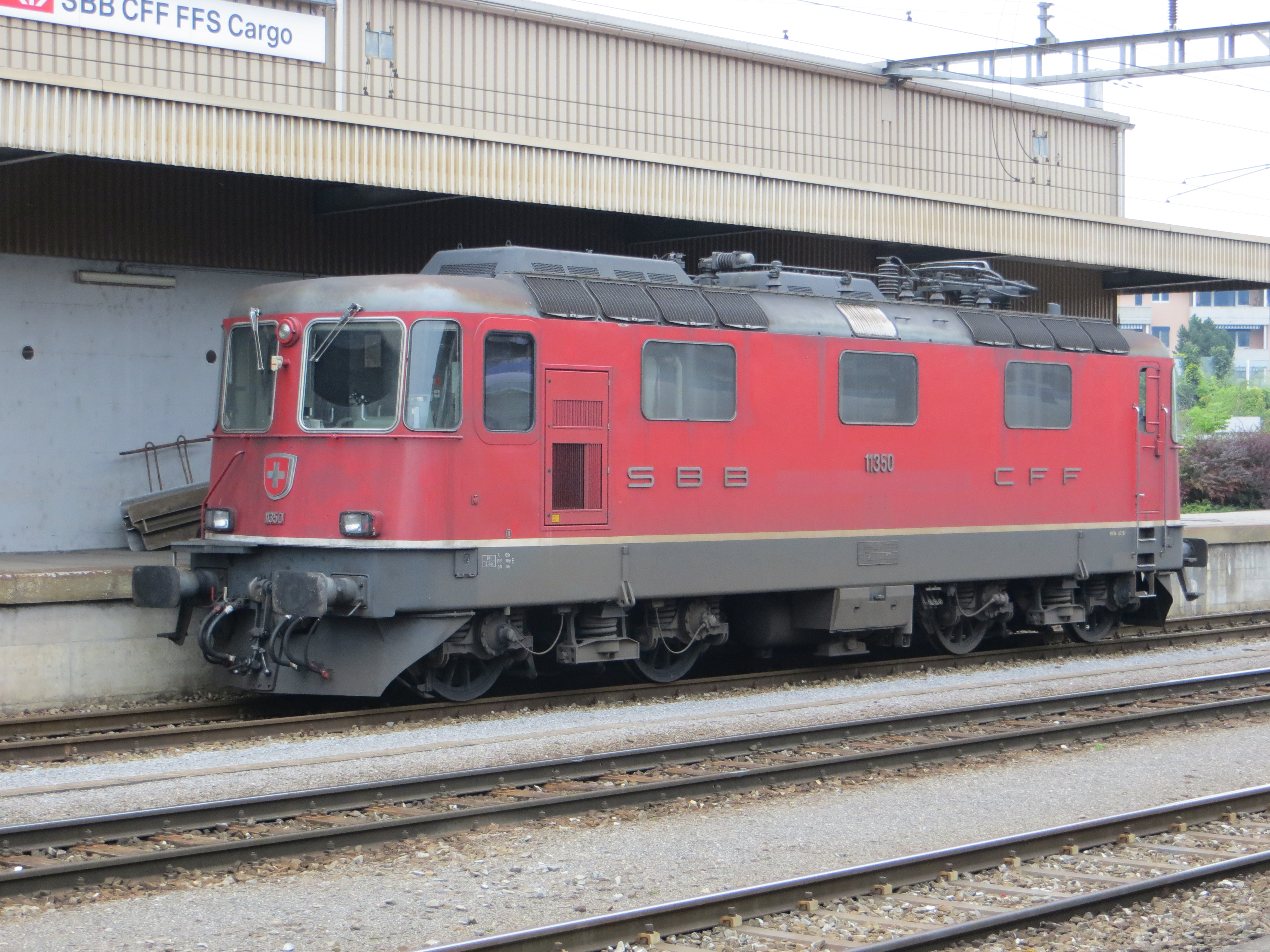 Rotkreuz train stationSBB Re 4/4 III 11350, ex Re 4/4 41 of the SüdostbahnThis Re 4/4 III was a request of the Südostbahn to the Swiss Federal Railways to get one Re 4/4 II of the 1st series for hauling heavy pilgrim trains over the steep 50 ‰ slopes to Einsiedeln. Therefore this locomotive got – without changing any other components – another gear, which on one hand lowered the top speed from 140 km/h (87 mph) to 125 km/h (78 mph), but on the other hand increased the tractive force at the requested speeds.